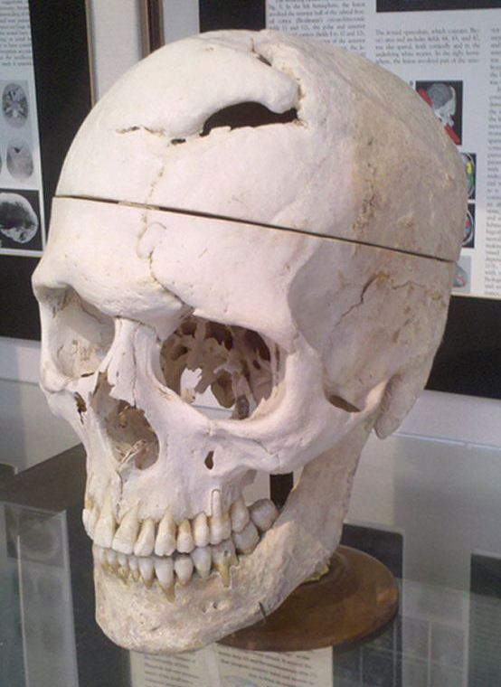 The skull of Phineas Gage on display at the Warren Anatomical Museum at Harvard Medical School.